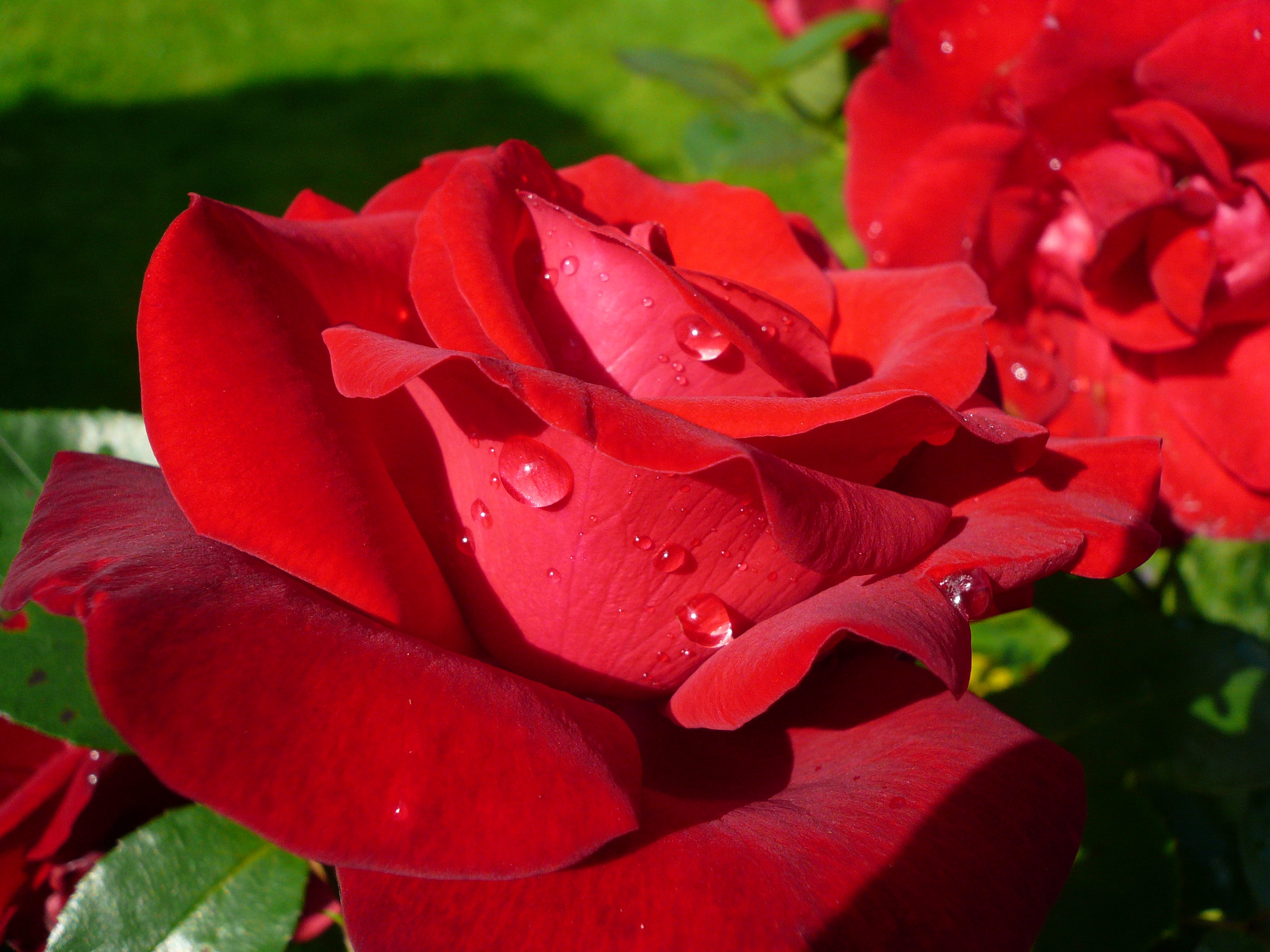 A red rose with dewdrops